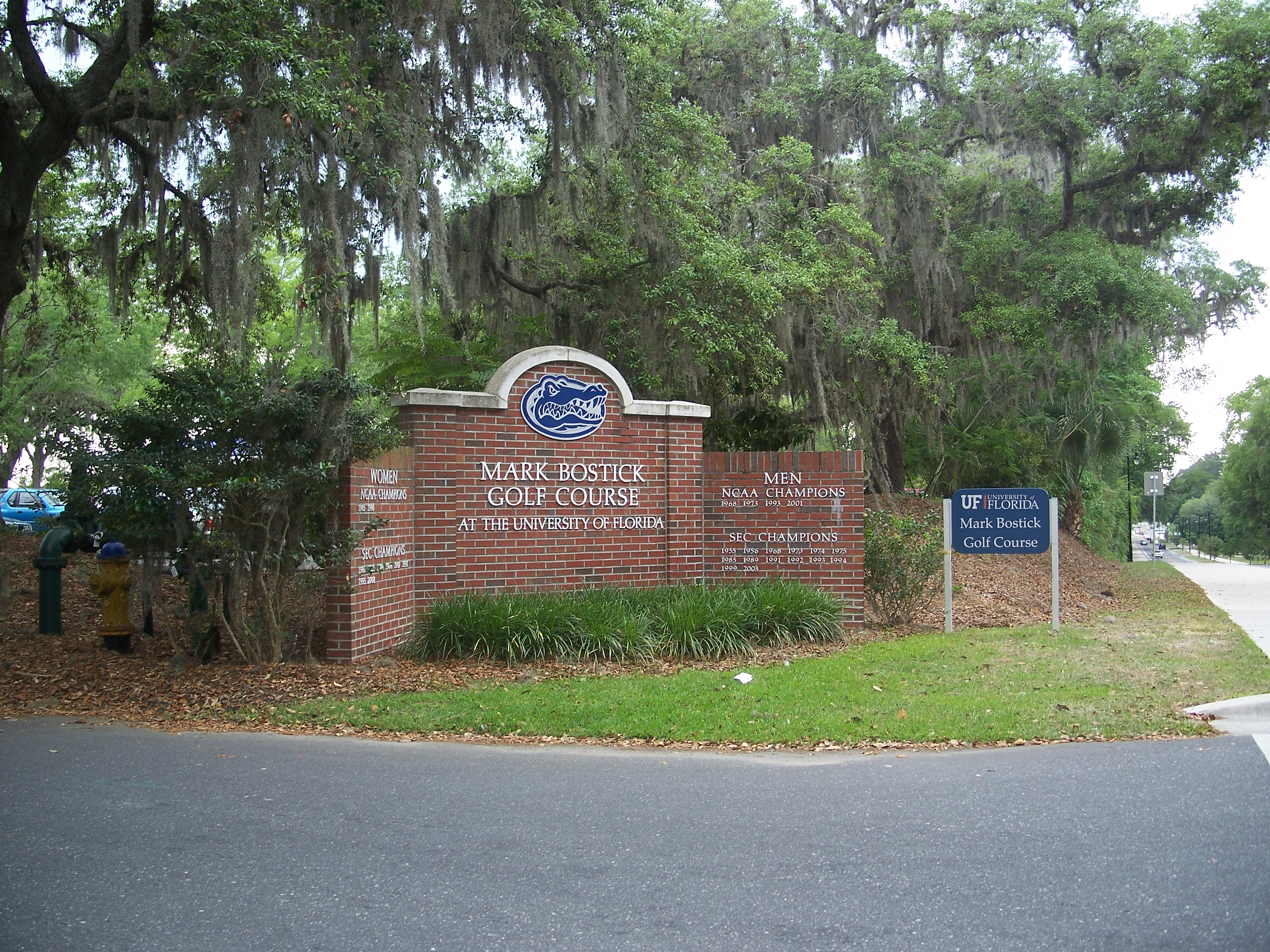 Gainesville, Florida: University of Florida: Sign at the Mark Bostic Golf Course